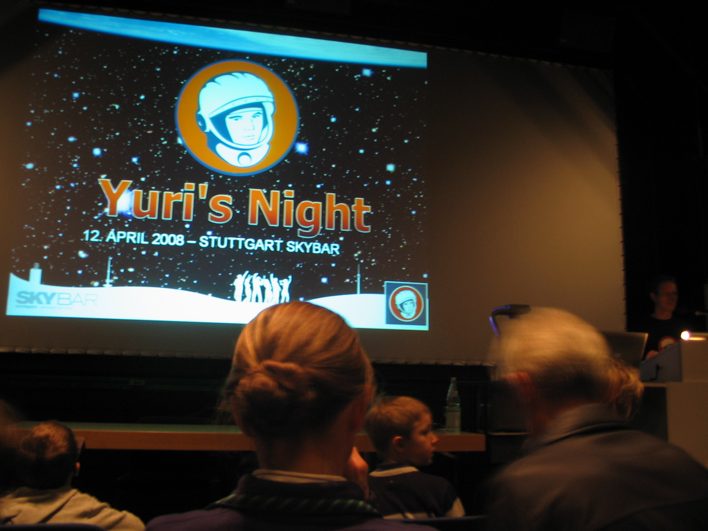 Yuri's Night 2008 in Stuttgart. Presentation given in Stuttgart planetarium